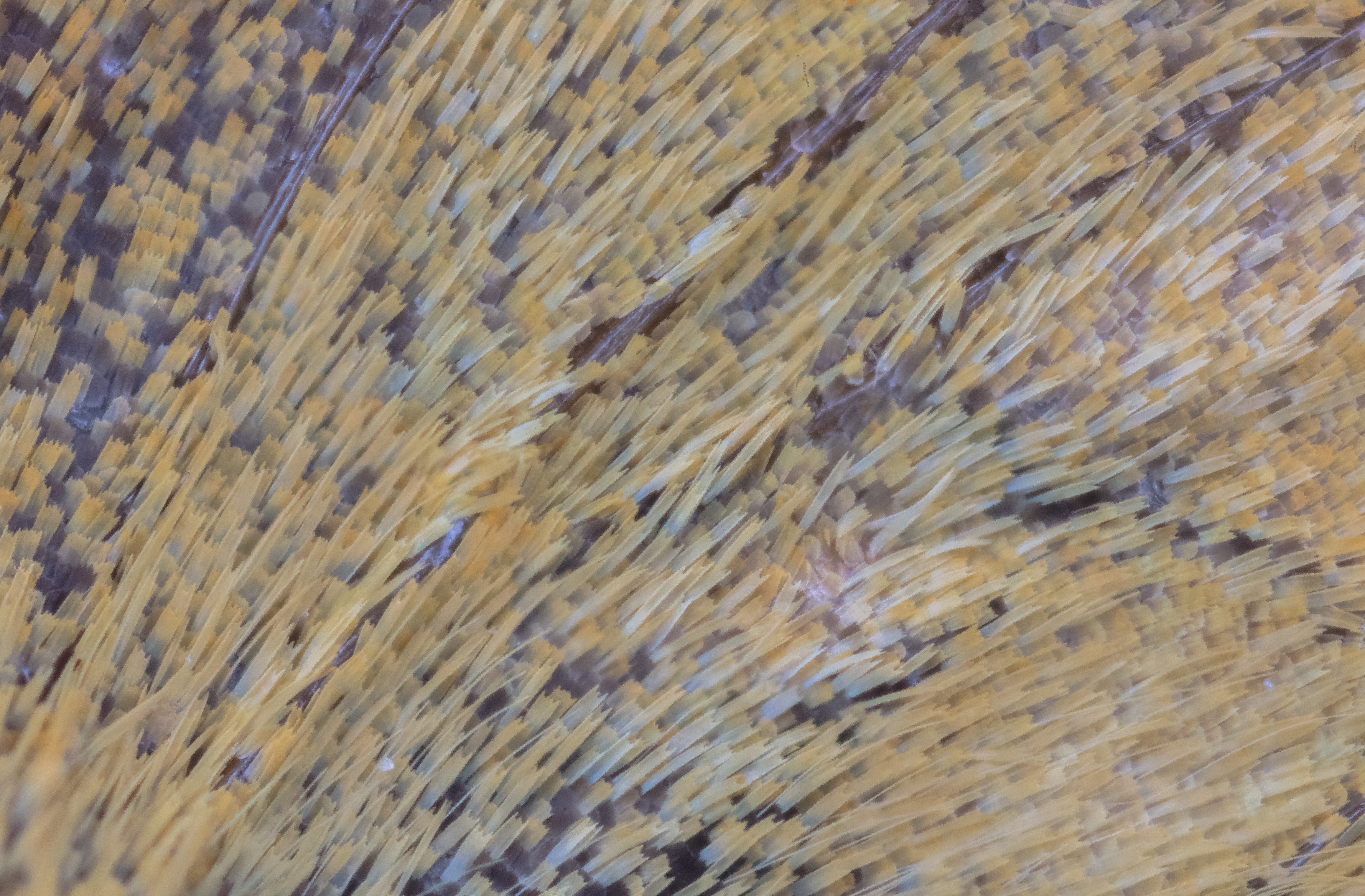 Silver-spotted skipper (Hesperia comma), Hartelholz, Munich, Germany